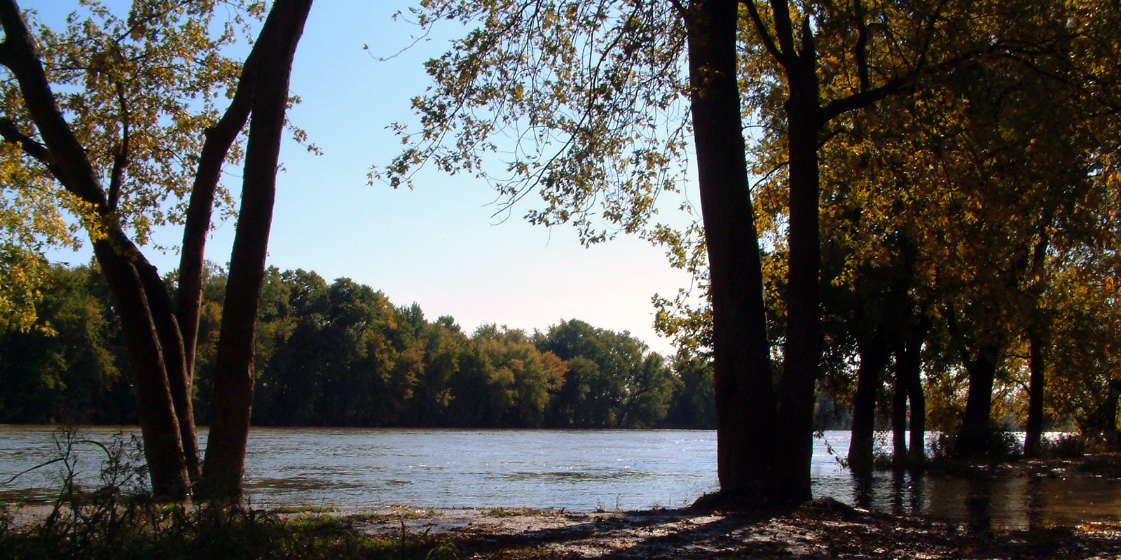 The Wabash River at Williamsport, Indiana. This photo looks south-southeast toward the Fountain County side of the river, and was taken from the shore in Williamsport's "Old Town" near the end of East Washington Street.